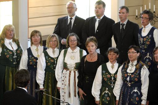 The Norwegian choir Onøy/Lurøy sangkor singing for the King and Queen of Norway: 17 June 2008